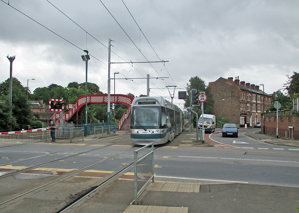 Basford: crossings at David Lane